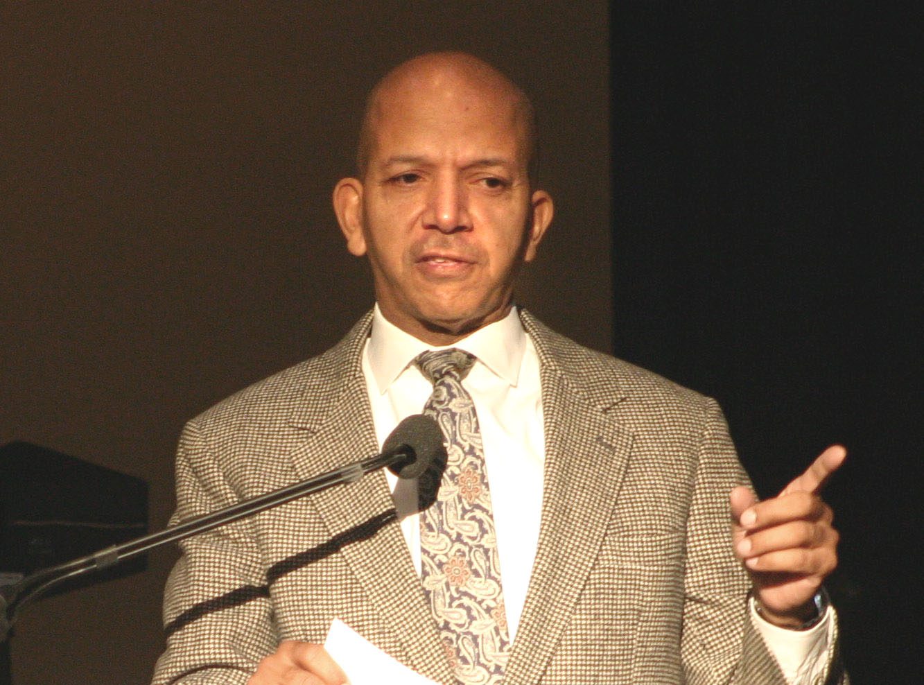 Anthony A. Williams, former Mayor of Washington, D.C., speaking at the 2006 Cherry Blossom Festival Opening Ceremonies at the National Building Museum.